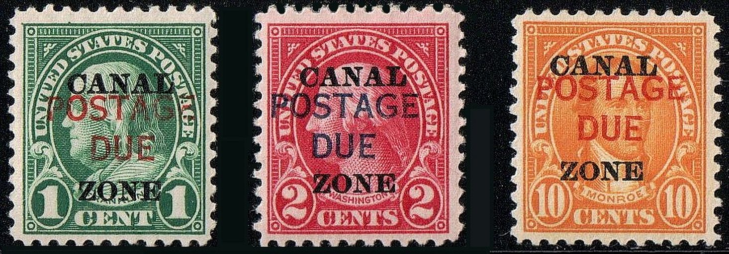 Canal Zone overprints -- postage due U.S. Regular Issues of 1922-1925 overprinted with CANAL ZONE